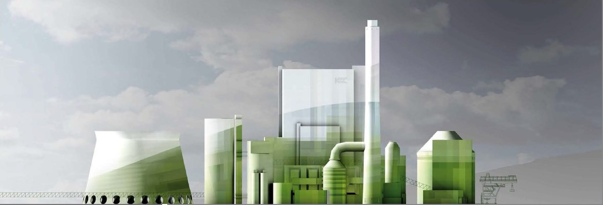 power station mainz (conceptual design)